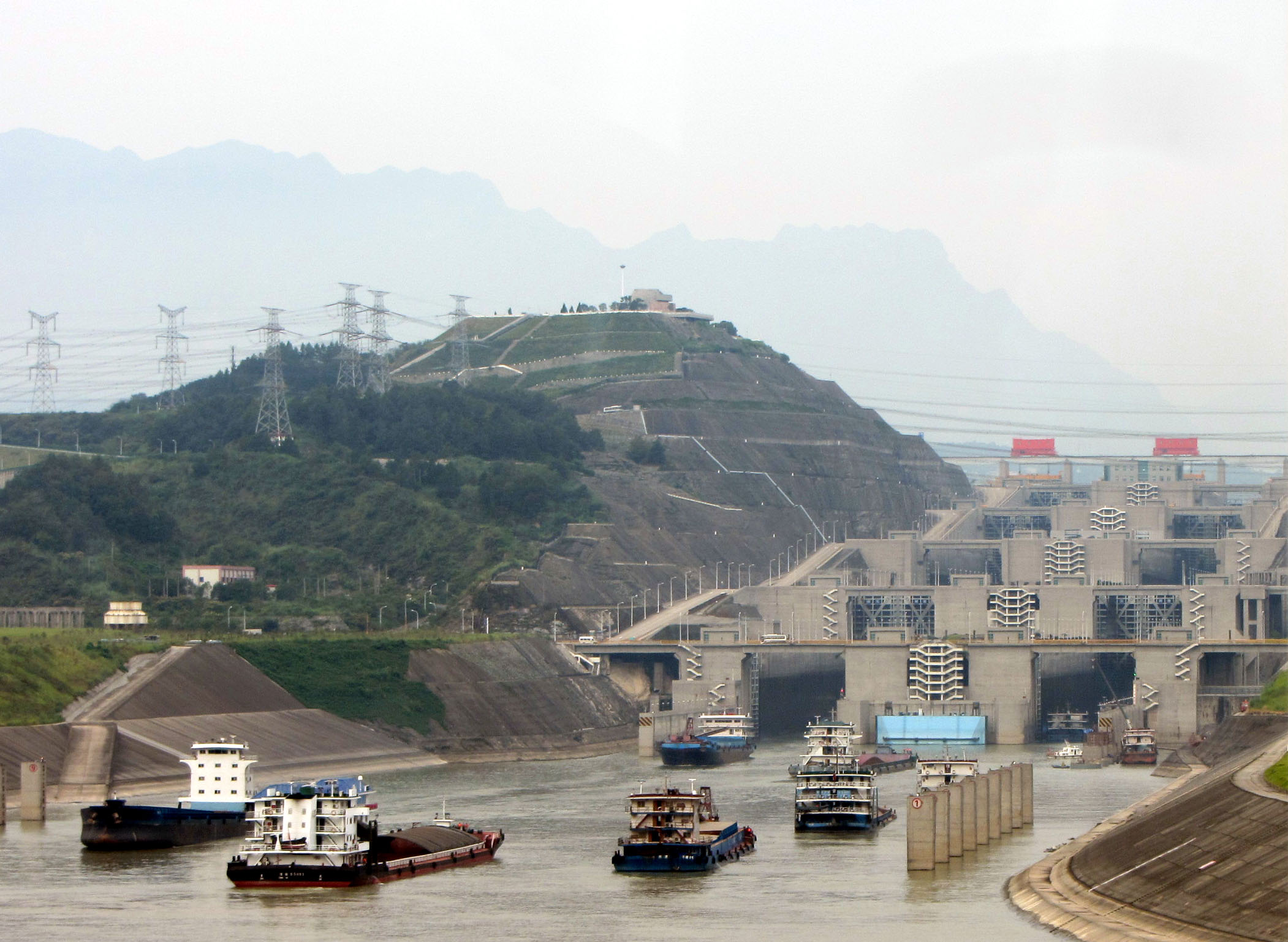 Entrance to the locks of the Three-Gorges-Dam seen from the Yangtse Bridge beliw the dam.